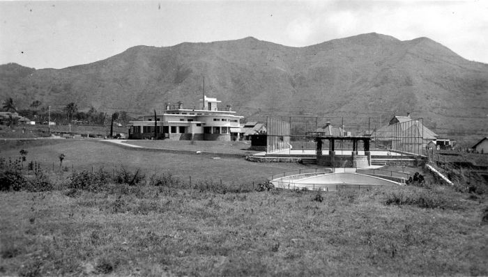 Villa at Batu